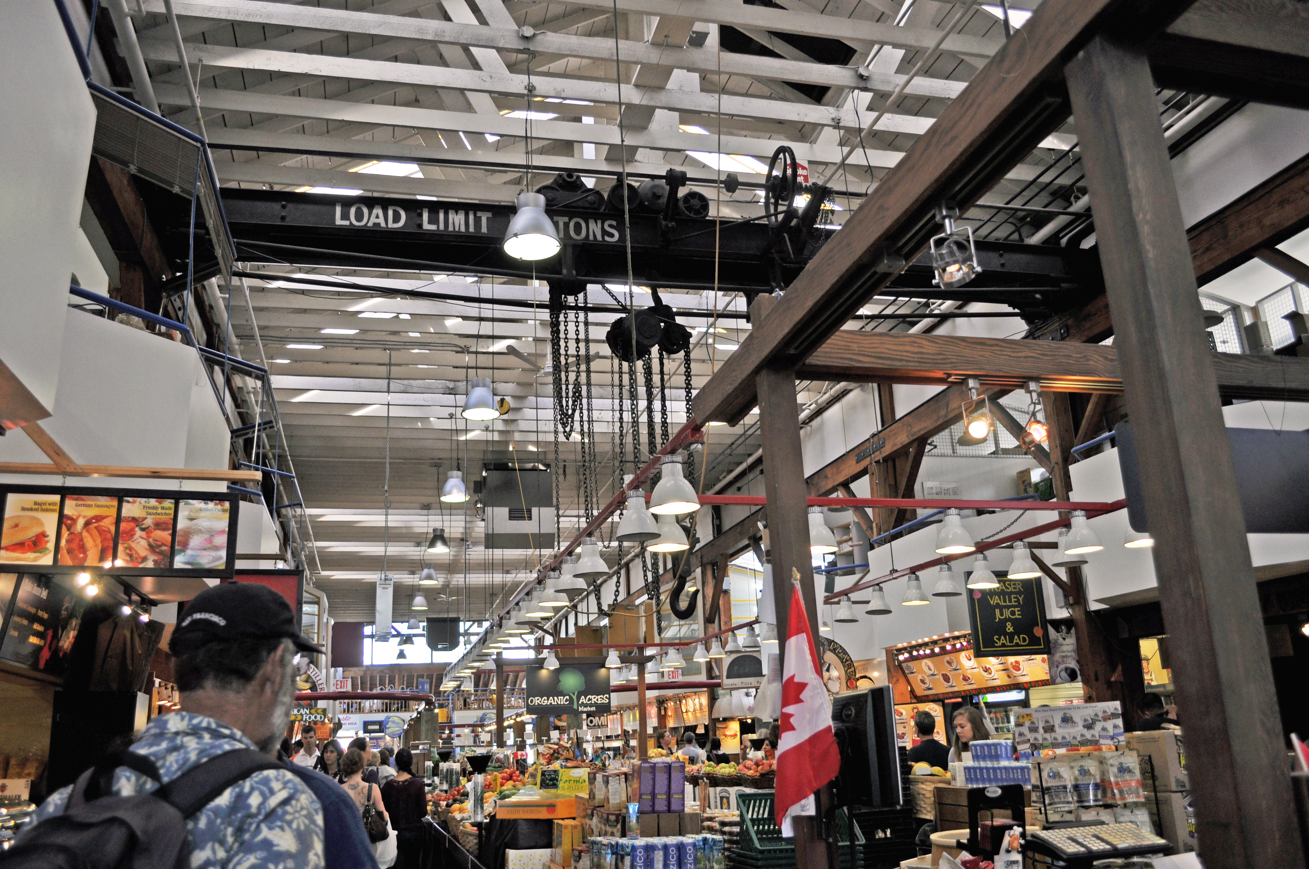 Interior, Granville Island Public Market, Granville Island, Vancouver, BC.